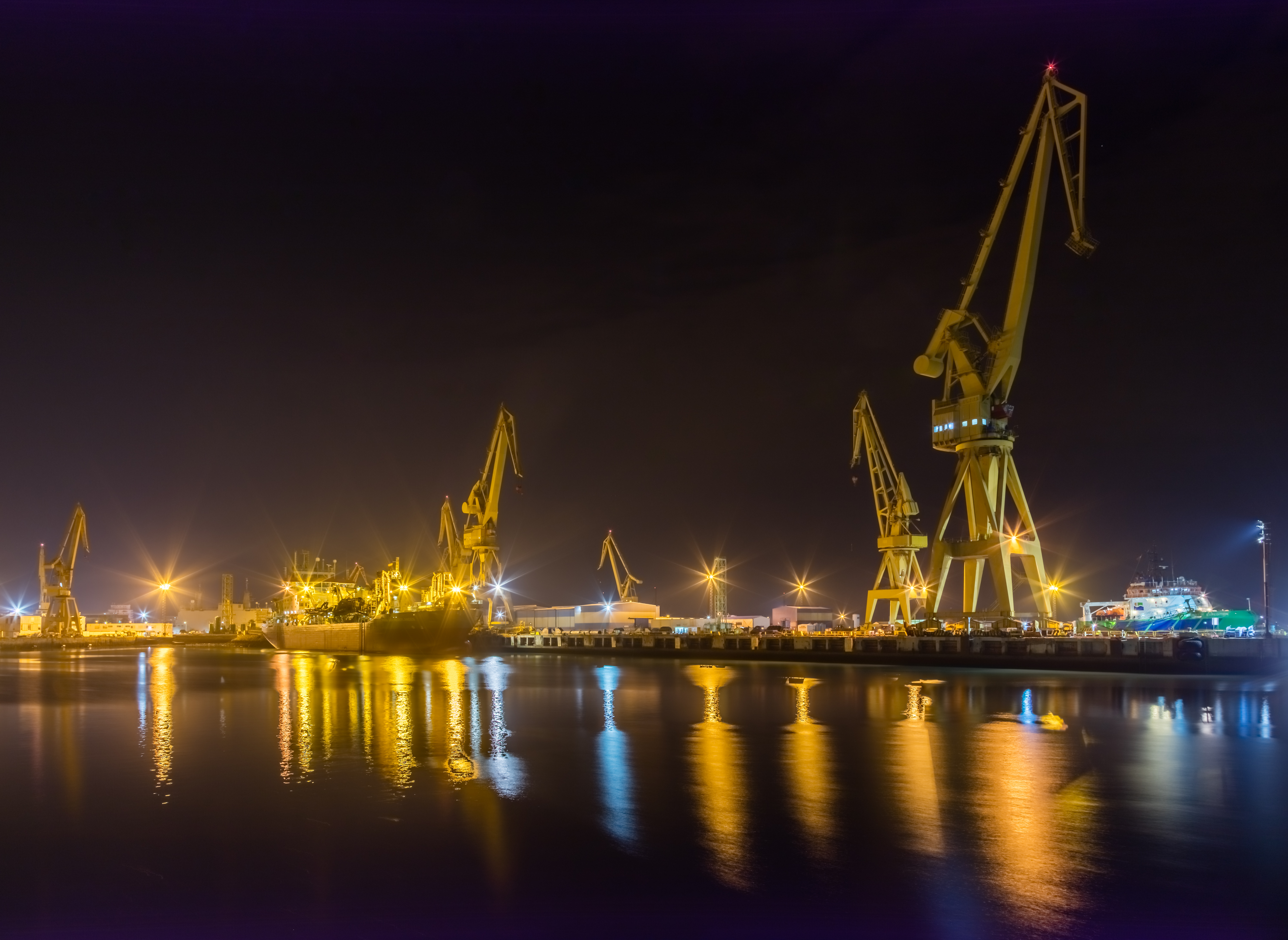 Port of the Bay of Cadiz, Spain